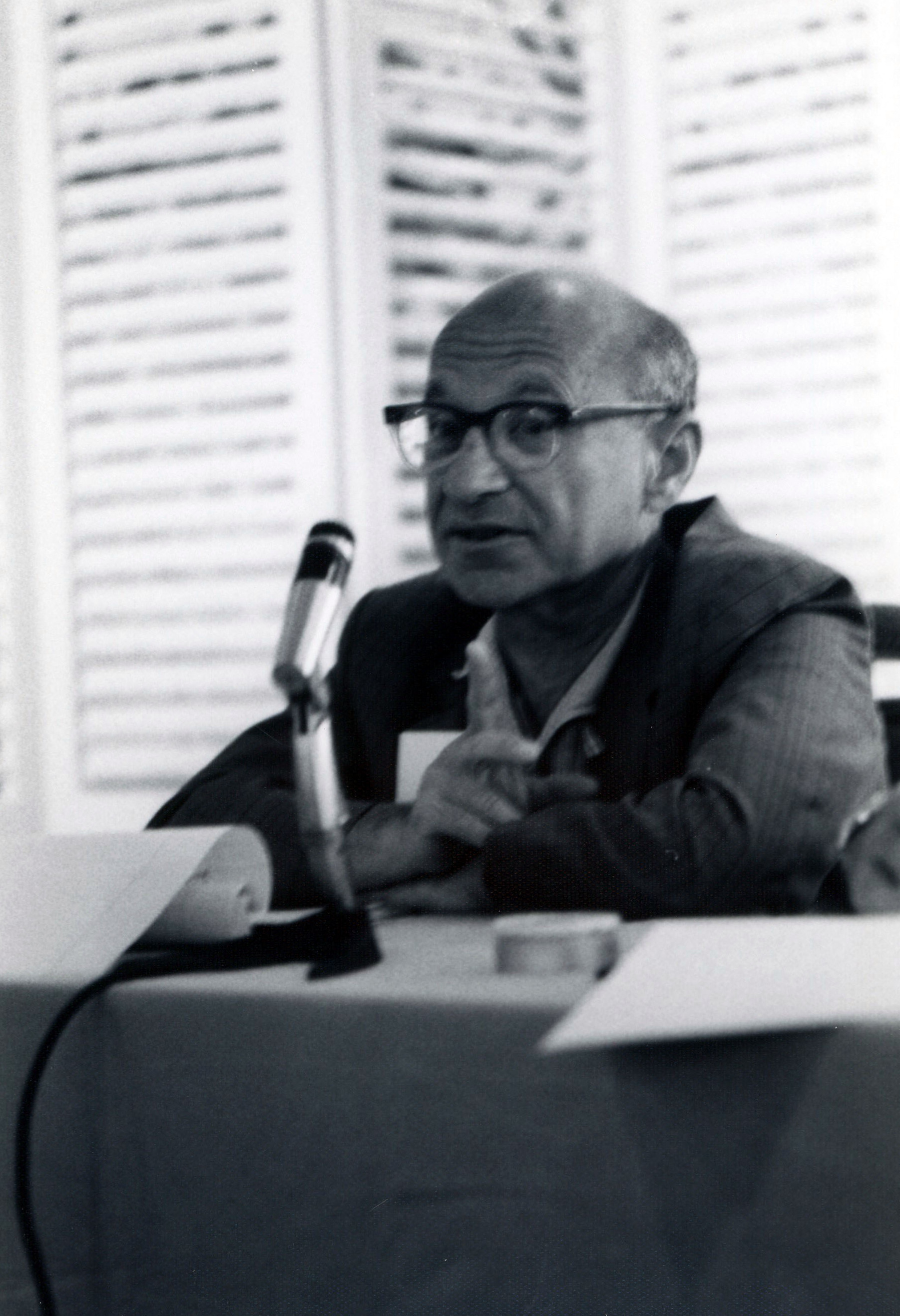 Milton Friedman.